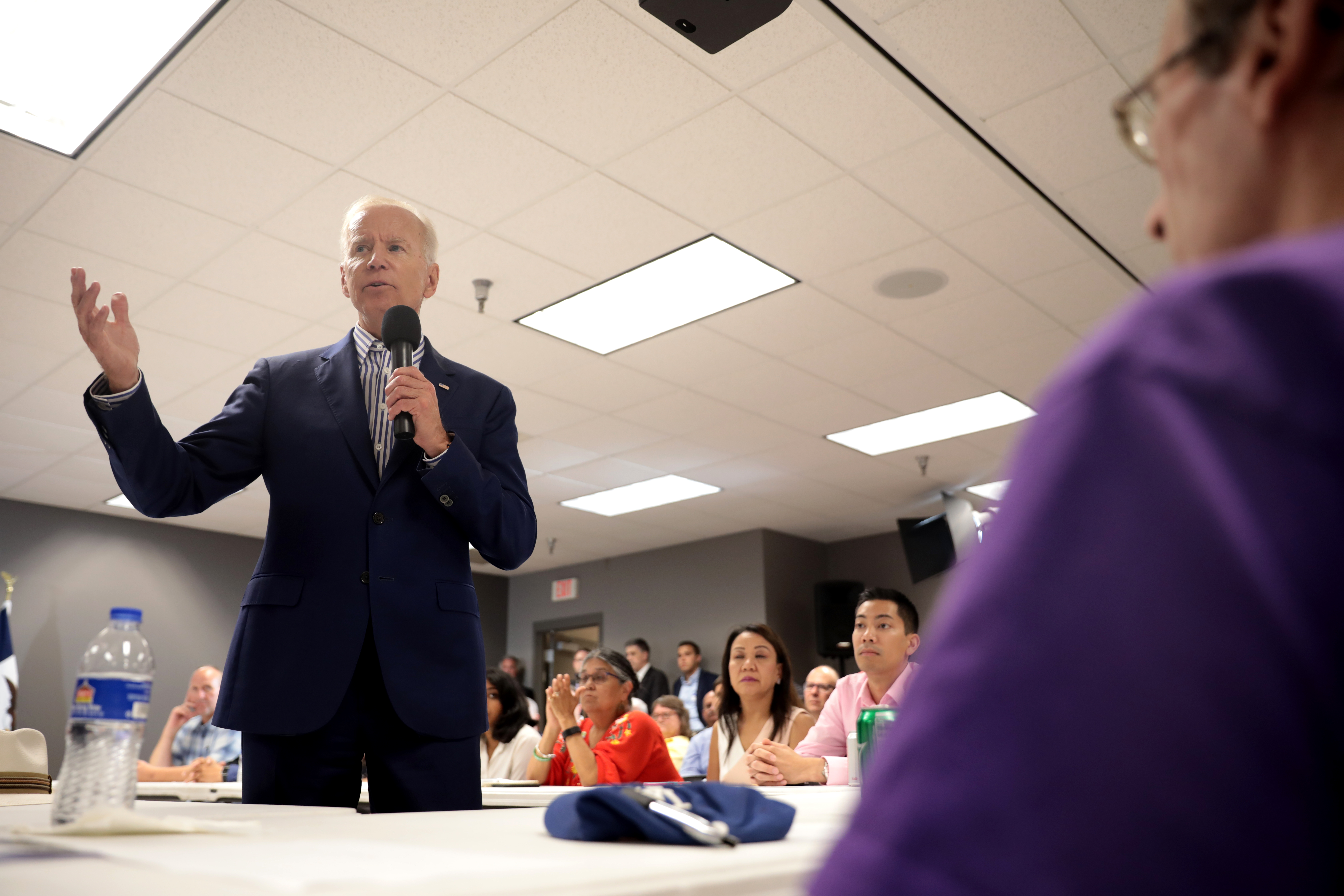 Former Vice President of the United States Joe Biden speaking with supporters at a town hall hosted by the Iowa Asian and Latino Coalition at Plumbers and Steamfitters Local 33 in Des Moines, Iowa.